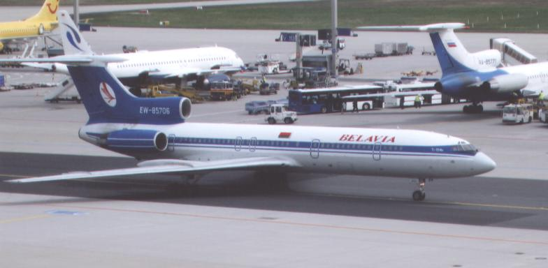 Belavia Tupolev Tu-154M at Frankfurt Rhein-Main